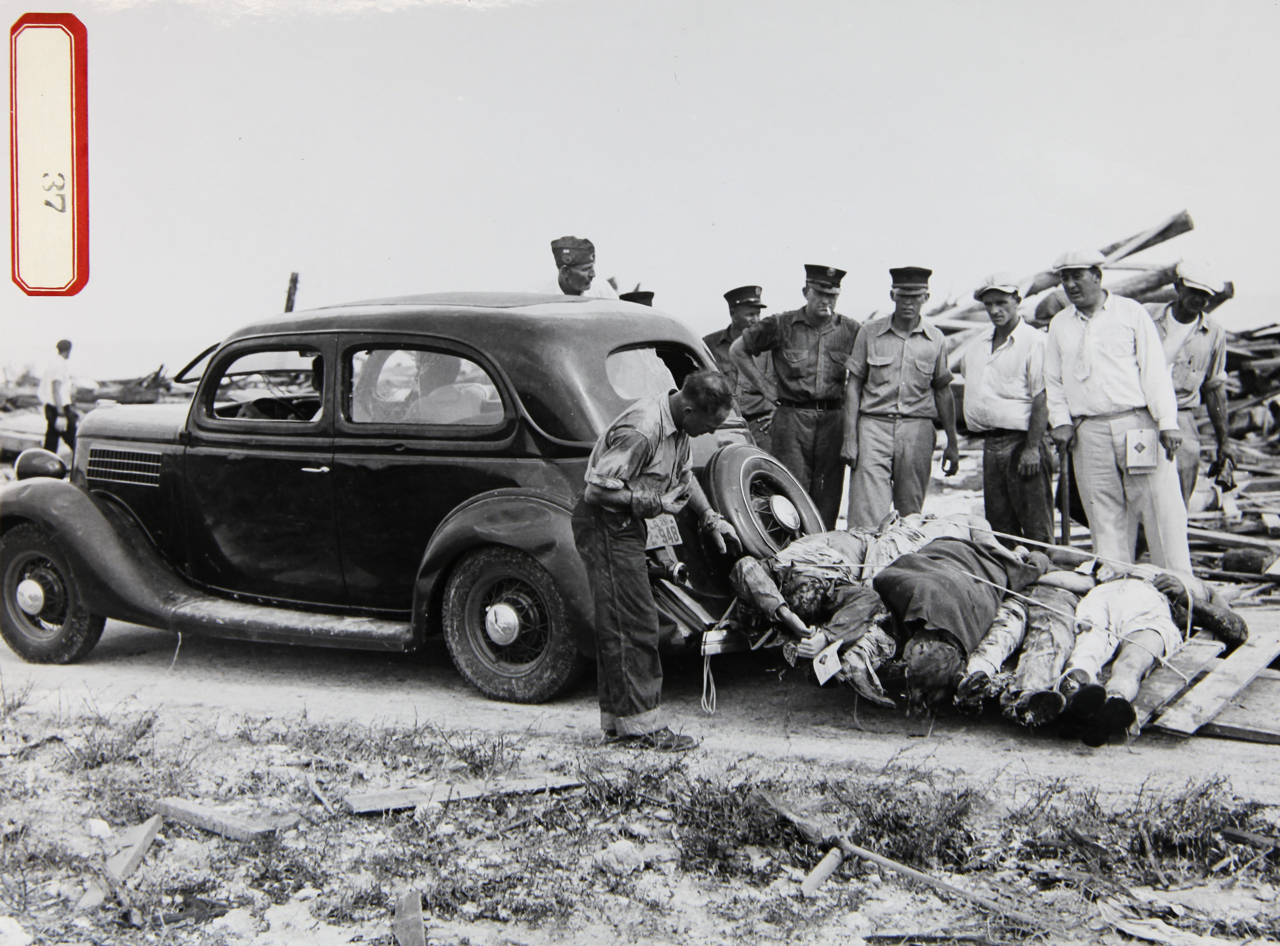 Five hurricane victims towed on improvised sled behind car, Florida Keys, circa Sept. 5, 1935.